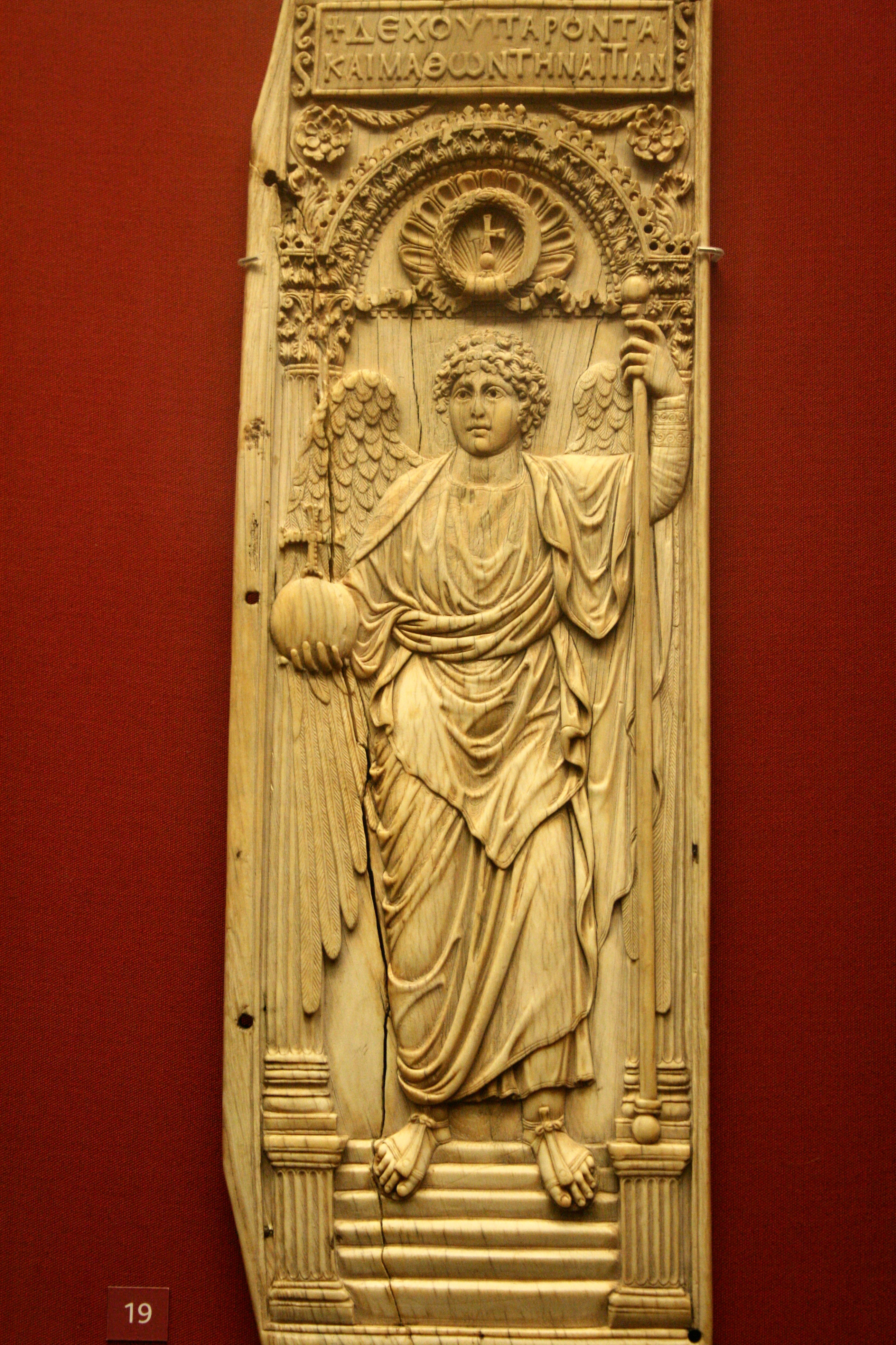 Ivory panel from a Byzantine diptych. Constantinople (AD 525-550). Archangel. British Museum (London), Inv.Nr. OA.9999